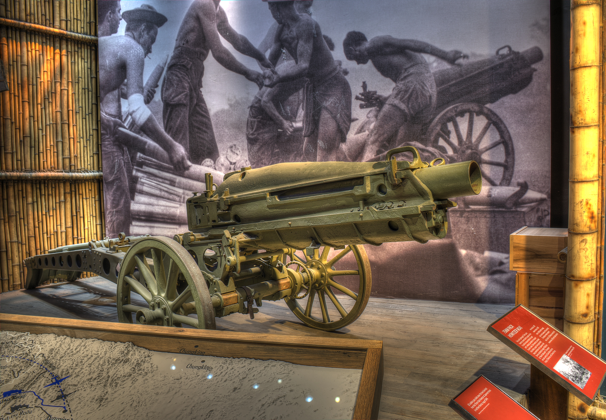 M1A1 75mm Pack Howitzer